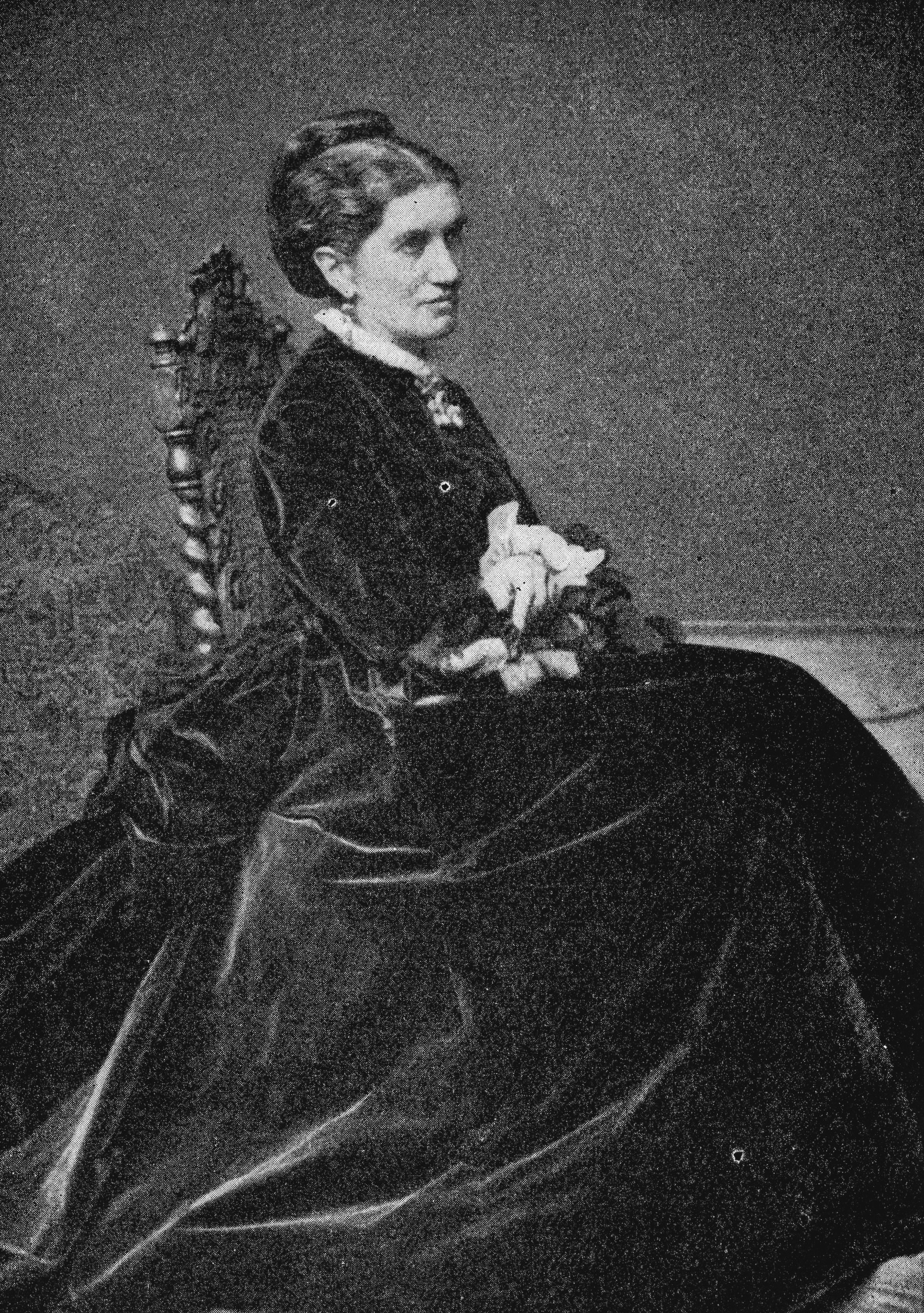 Johanna von Bismarck, Otto von Bismarcks wife 1878.